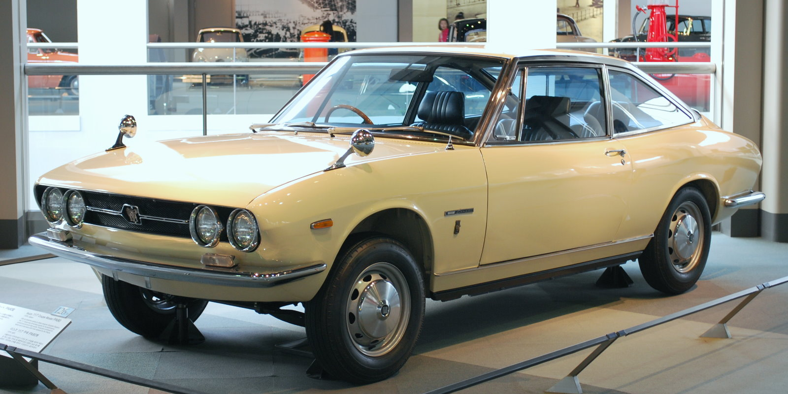 Isuzu 117 Coupe Model PA90